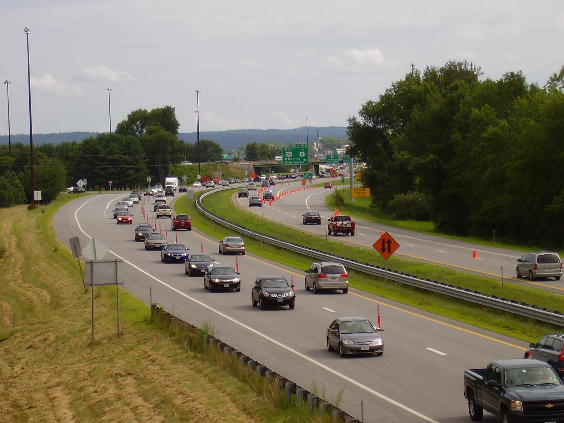 Contraflow lane reversal in operation after completion of NASCAR race at New Hampshire International Speedway on Interstate 93 in Concord, New Hampshire - July 14, 2013.